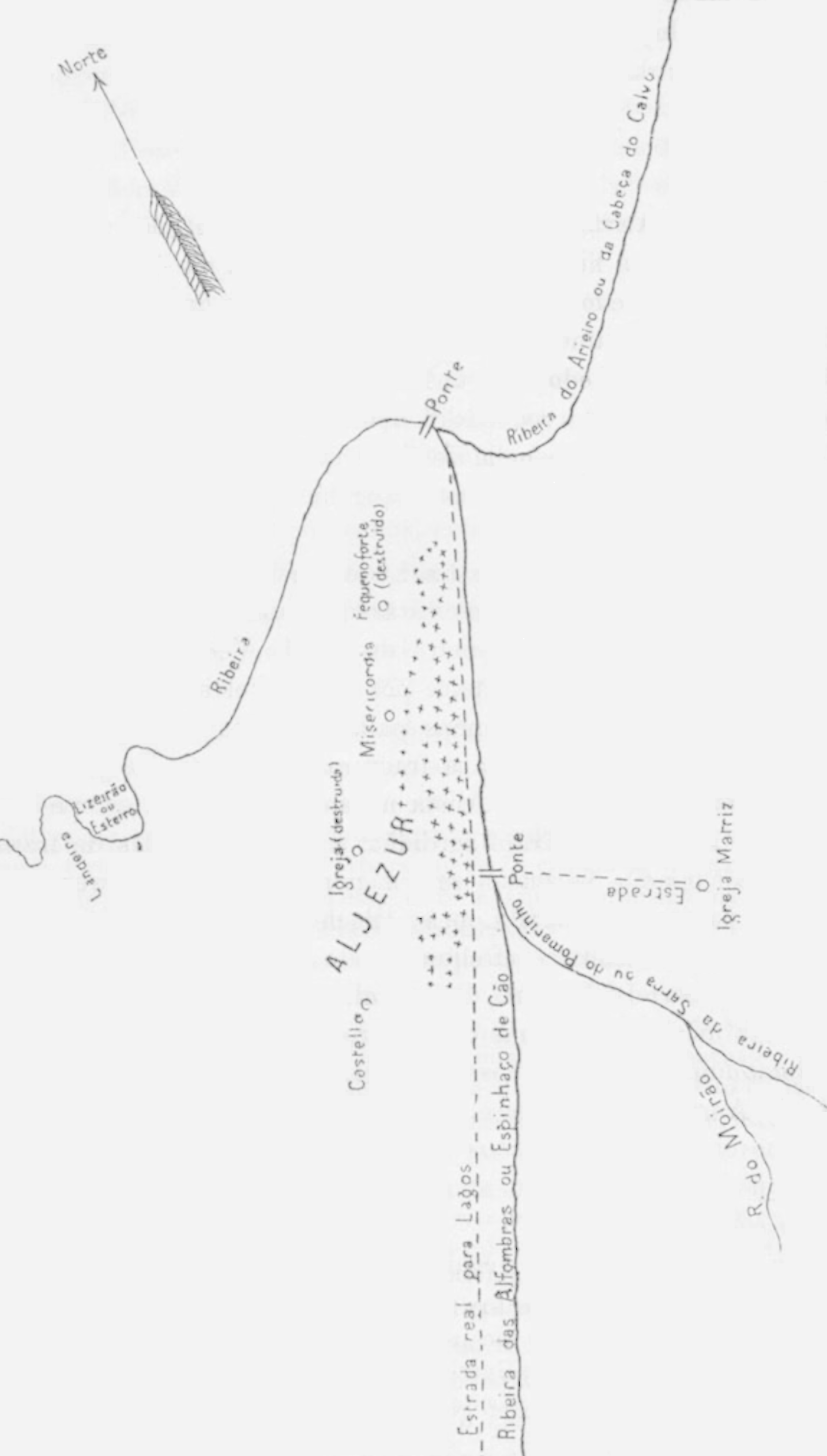 Map of the town of Aljezur, in the region of Algarve, in southern Portugal. This image was published in the work "O Archeologo Português", series I, volume VIII, of 1903, provided by Direcção Geral do Património Cultural.